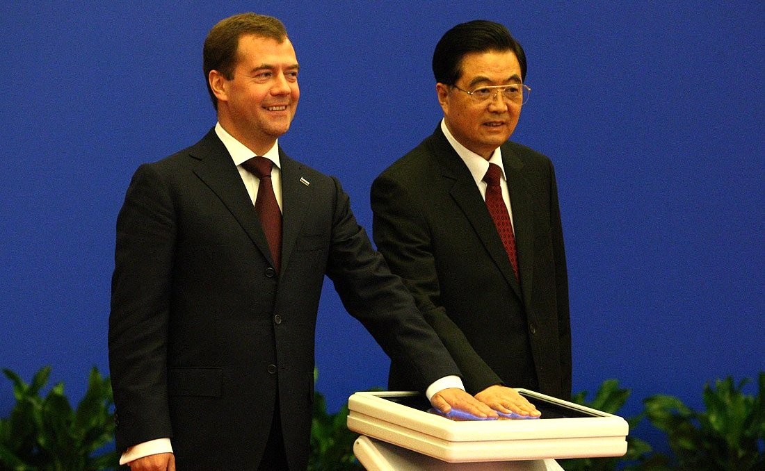 With President of China Hu Jintao at the ceremony marking the completion of the Russia-China oil pipeline.